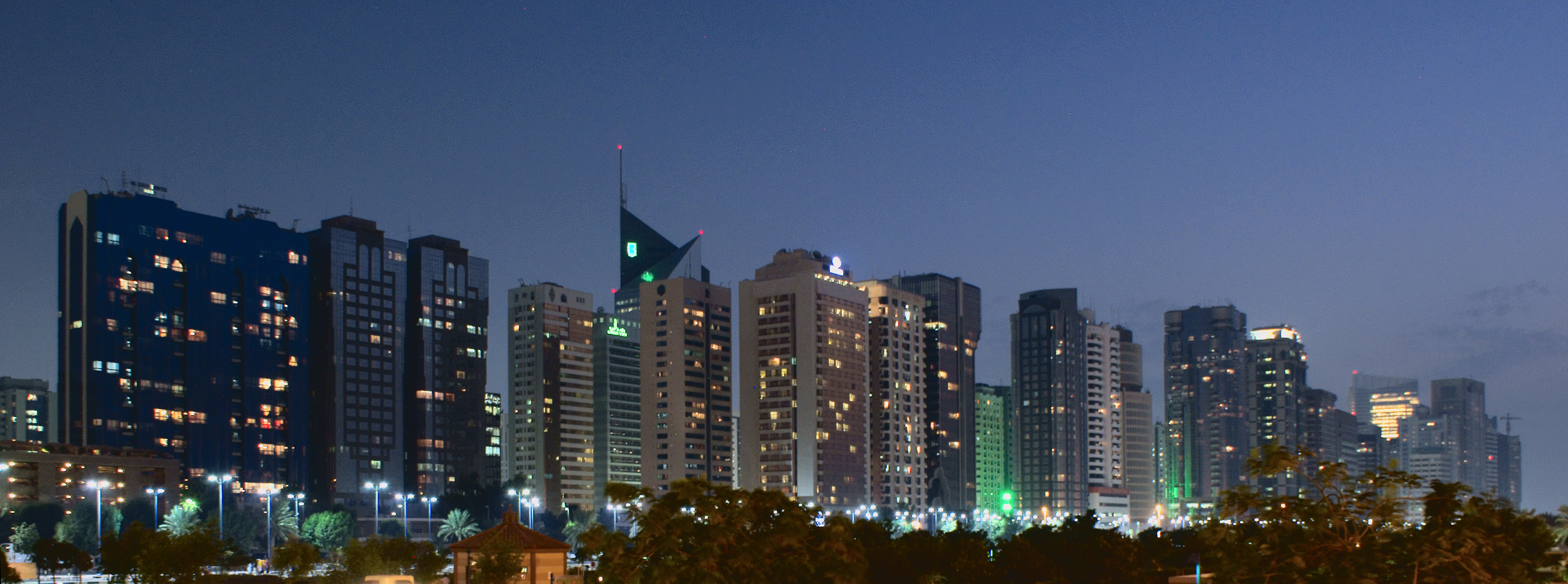 Skyline of Abu Dhabi at the Abu Dhabi Corniche.